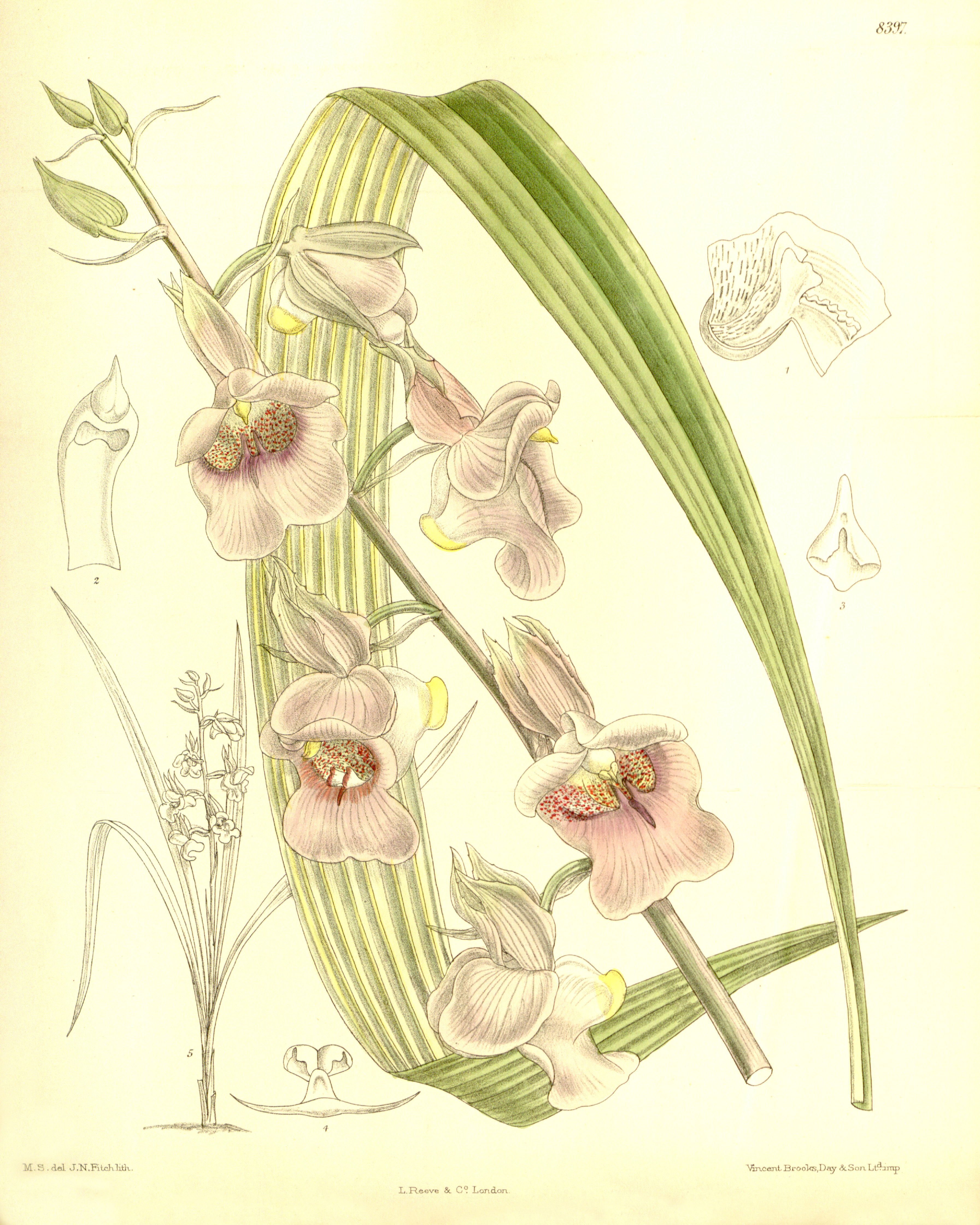 Illustration of Eulophia cucullata (as syn. Lissochilus stylites)